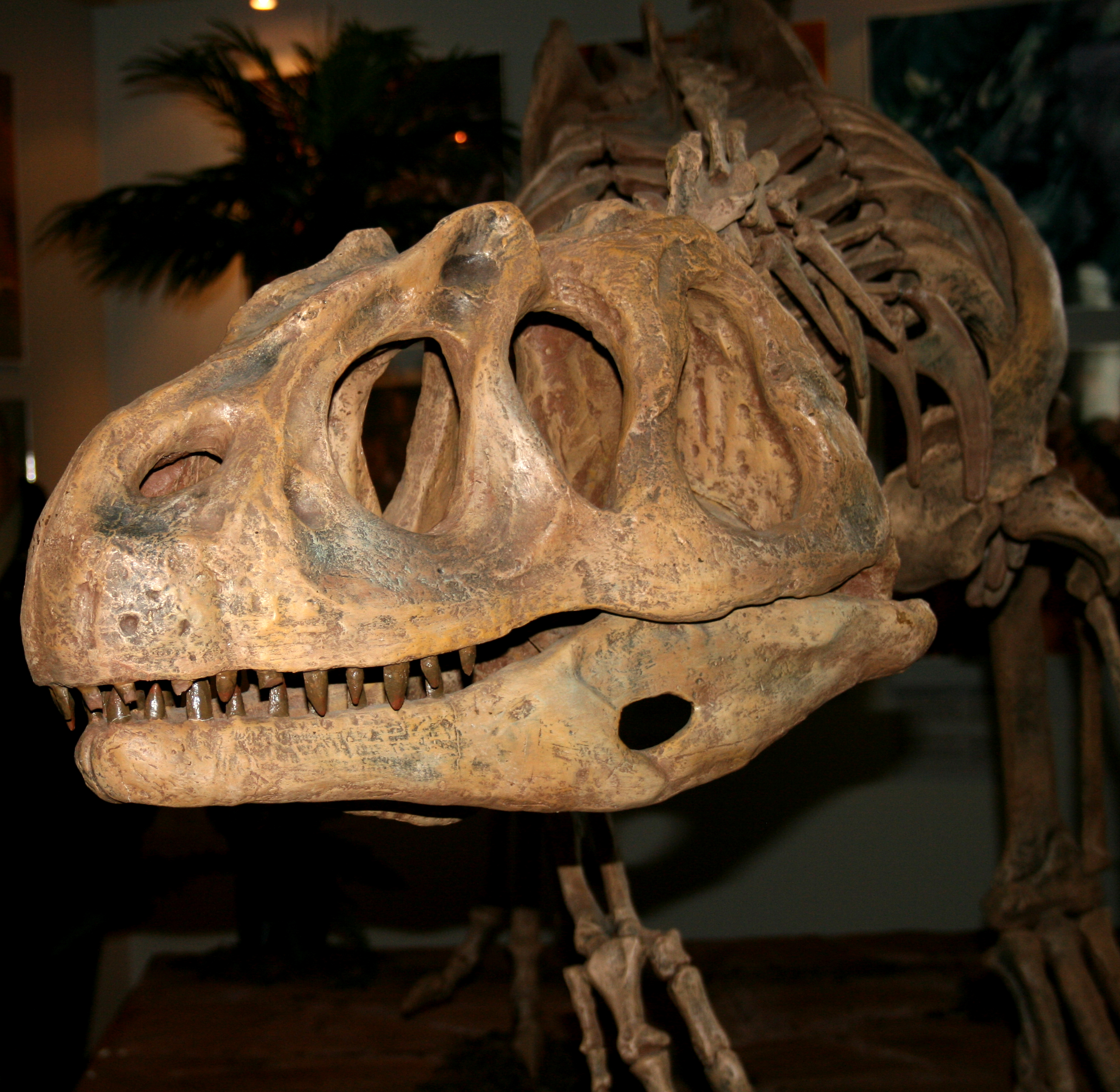 Skull of dinosaurus Piatnitzkysaurus, from National Museum, Prague, Czech Republic, originally from South America